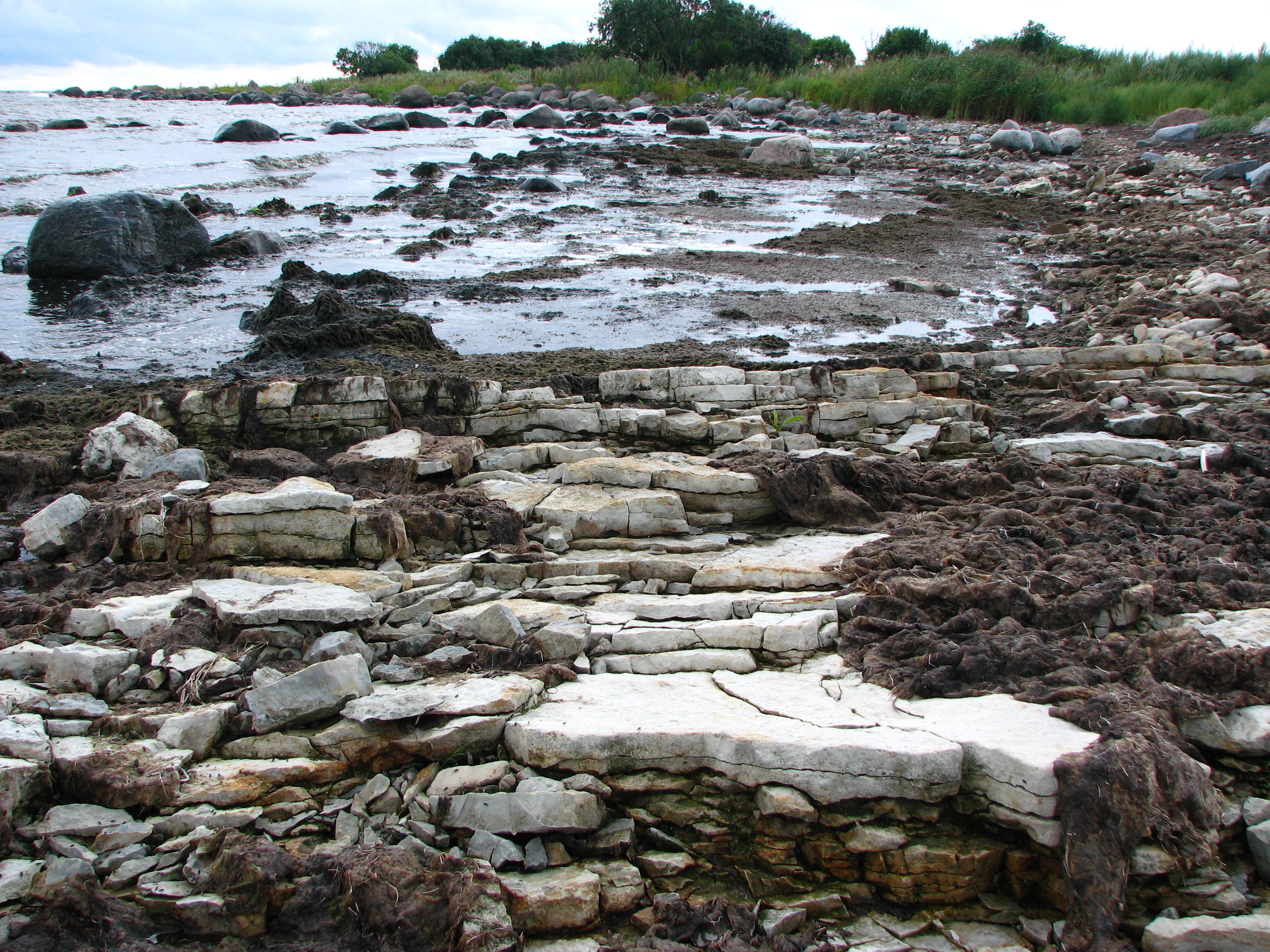 Coast of Saaremaa island on the Kübassaare peninsula, photographed in July 2010.